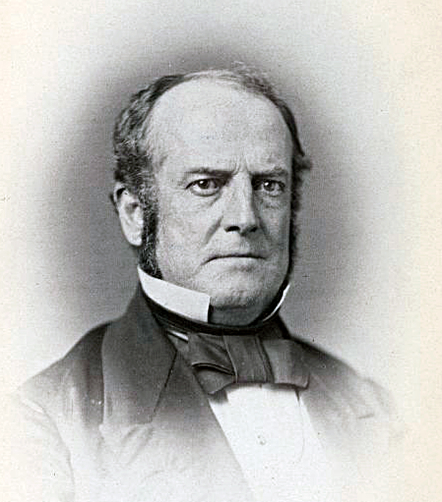 James Barroll Ricaud, US Representative from Maryland